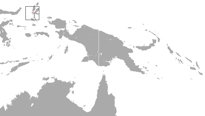 Blue-eyed Cuscus (Phalanger matabiru) range